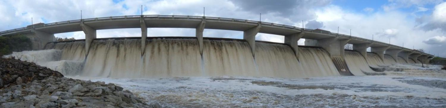 O'Shaughnessy Dam near Dublin, Ohio. Multiple photos combined using autostitch. Self-made photo.